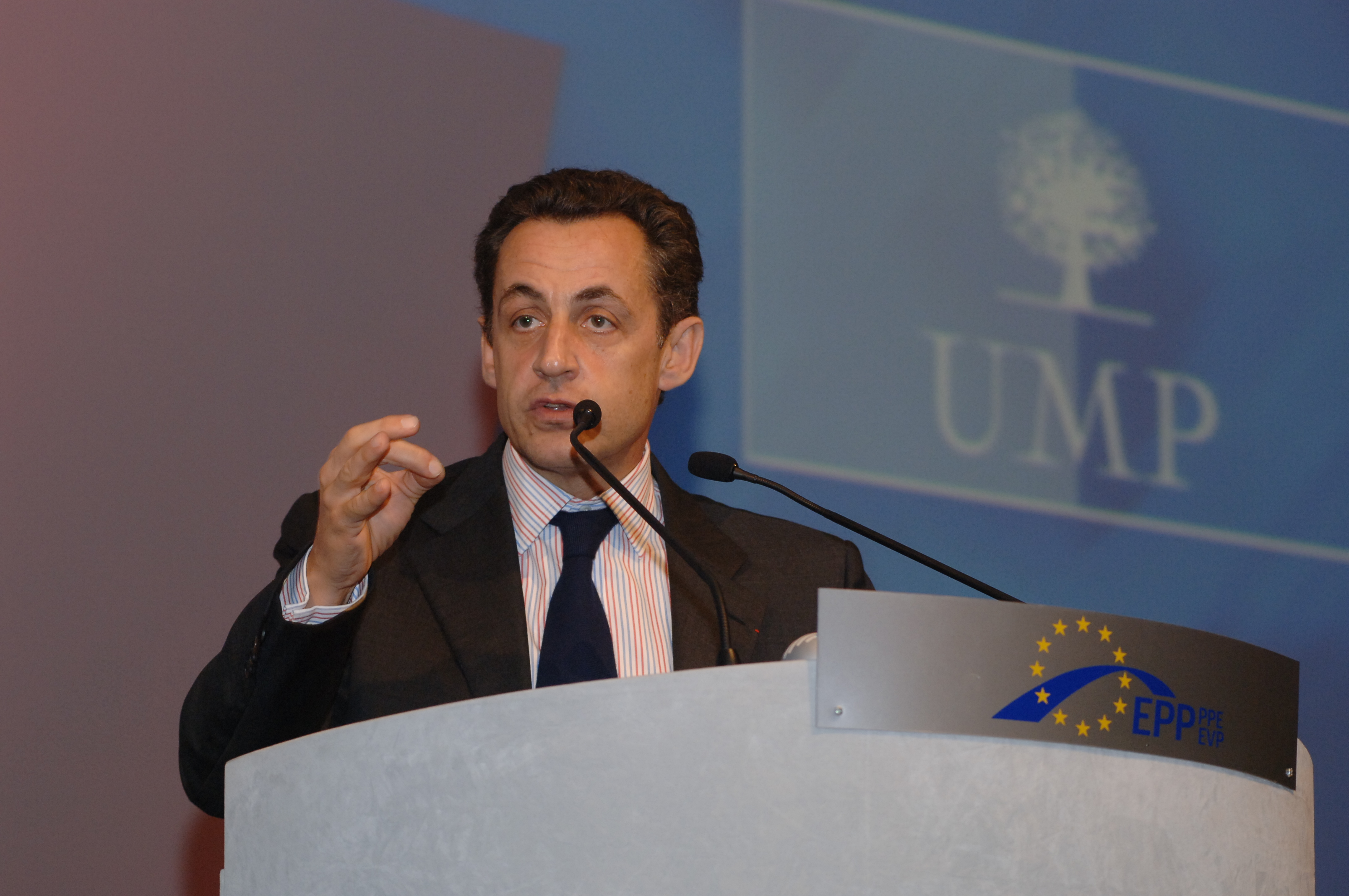 EPP Congress Rome 2006